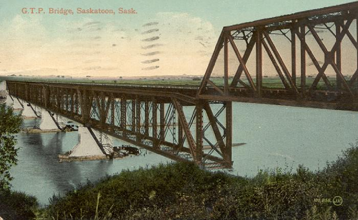 1916 coloured postcard of the Grand Trunk (later Canadian National) railway bridge in Saskatoon, Saskatchewan, Canada.